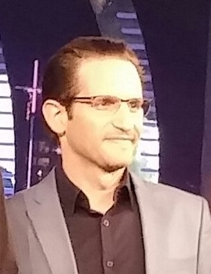 Guri Alfi in "Gav Ha'uma", a satirical Israeli television show. Filmed in Herzliya, 2015.